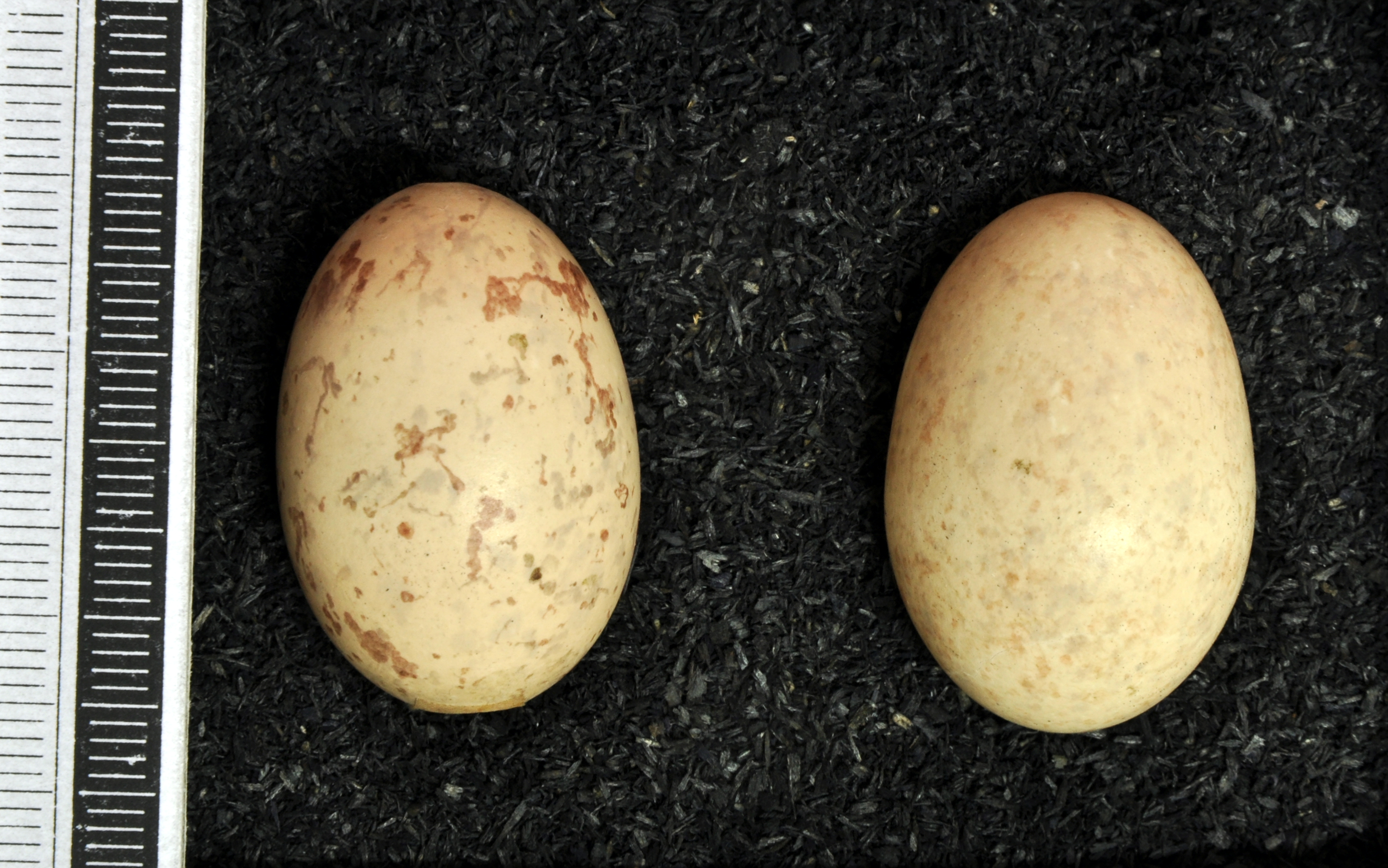 Pauraque Nyctidromus albicollis , egg, Coll. Museum Wiesbaden